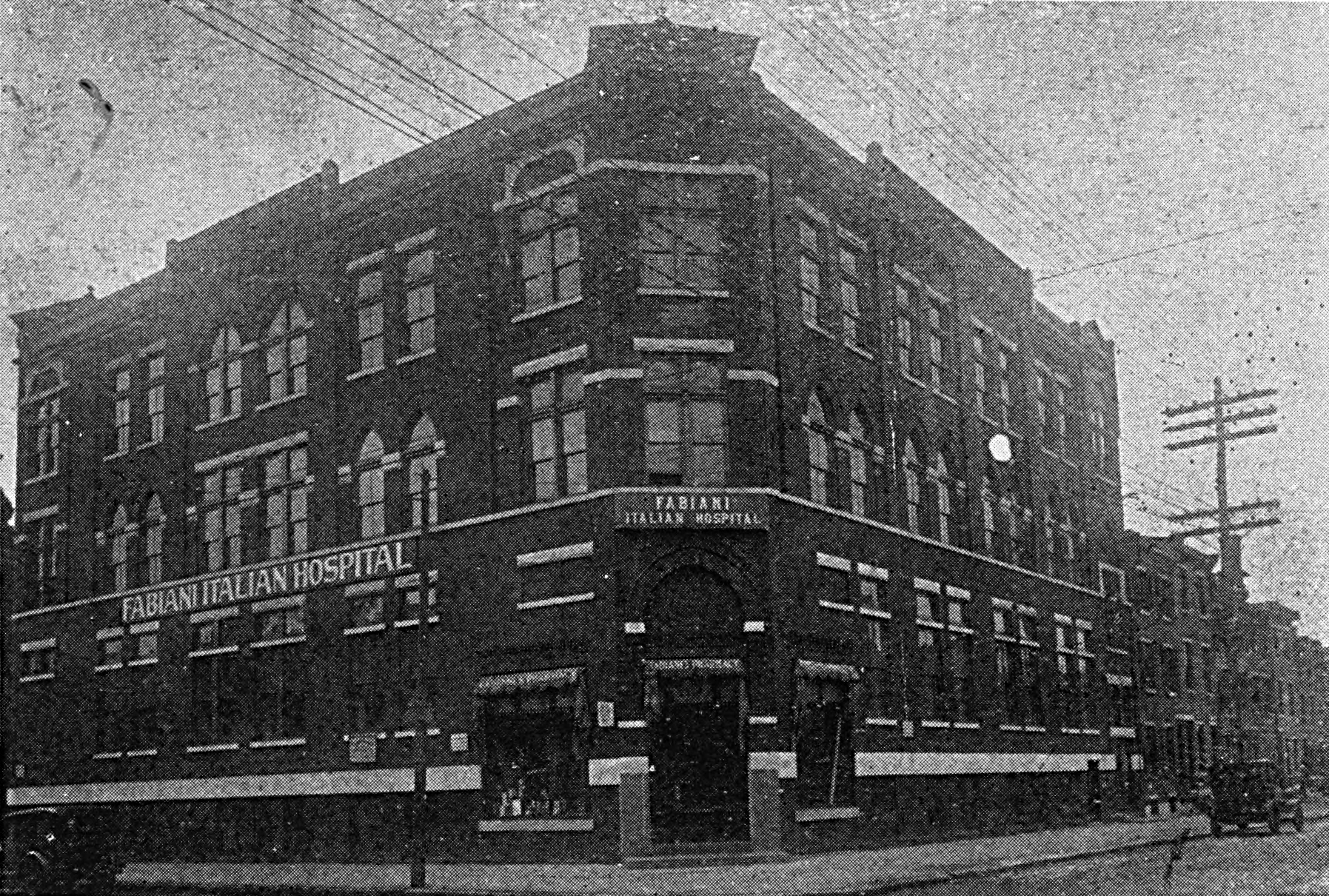 Fabiani Italian Hospital, SW Cor 10th & Carpenter Sts, Philadelphia PA - 1930 Listing in Philadelphia: World's Medical Centre, Pg 62